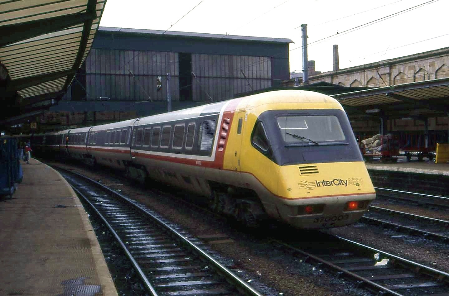 370003 Carlisle